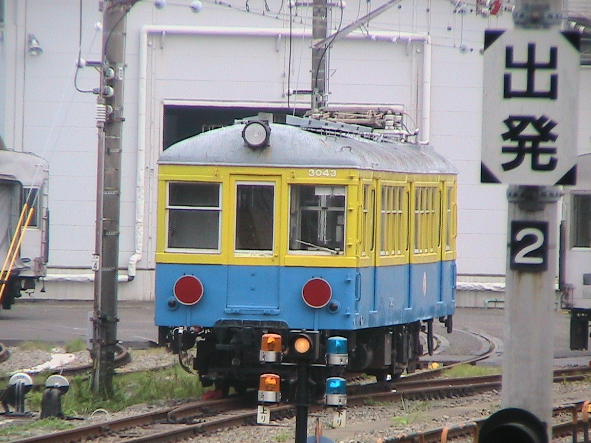 Tokyu Type dewa 3040 EMU.